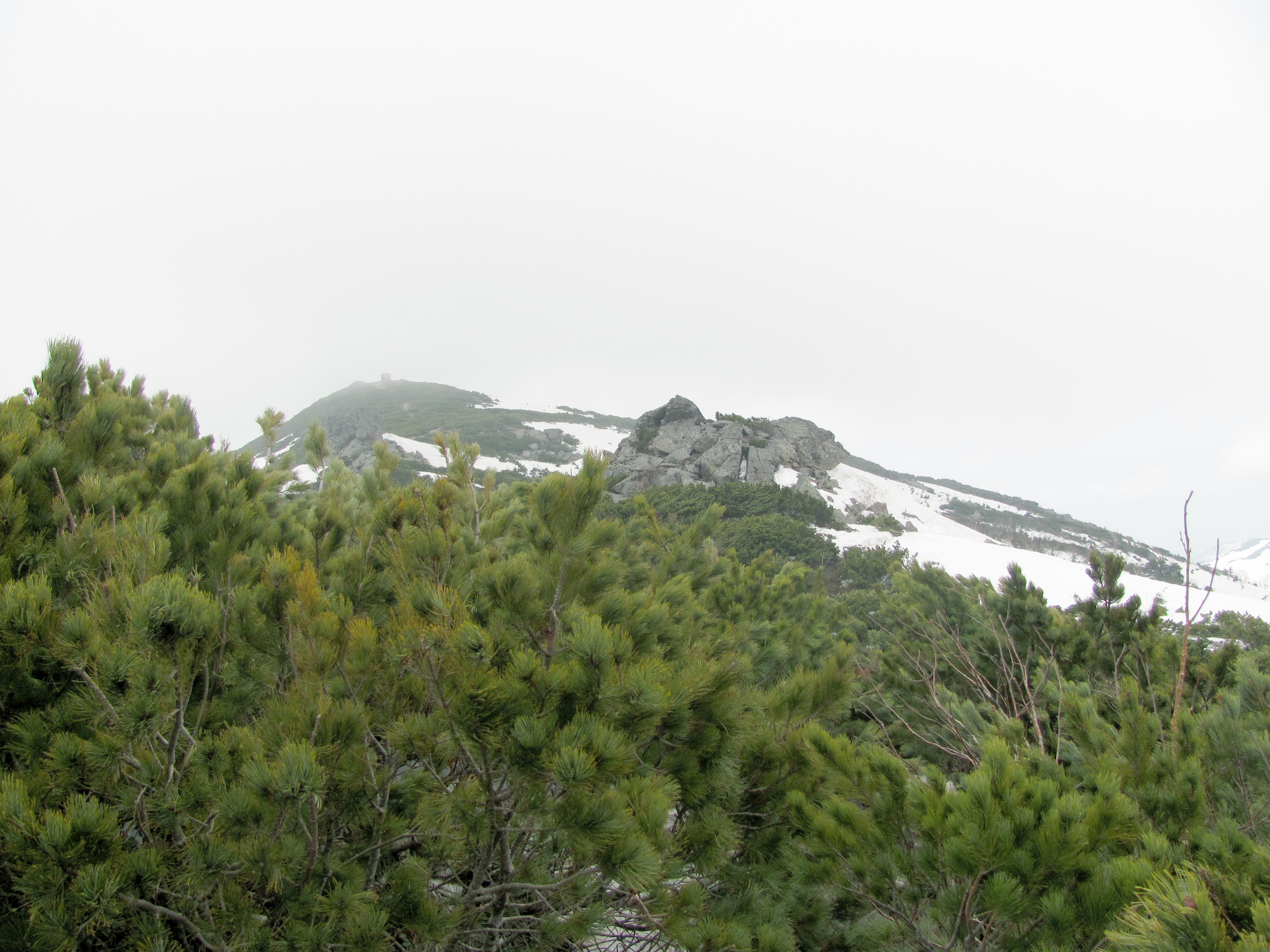 Top of Chekhov Peak near Yuzhno-Sakhalinsk